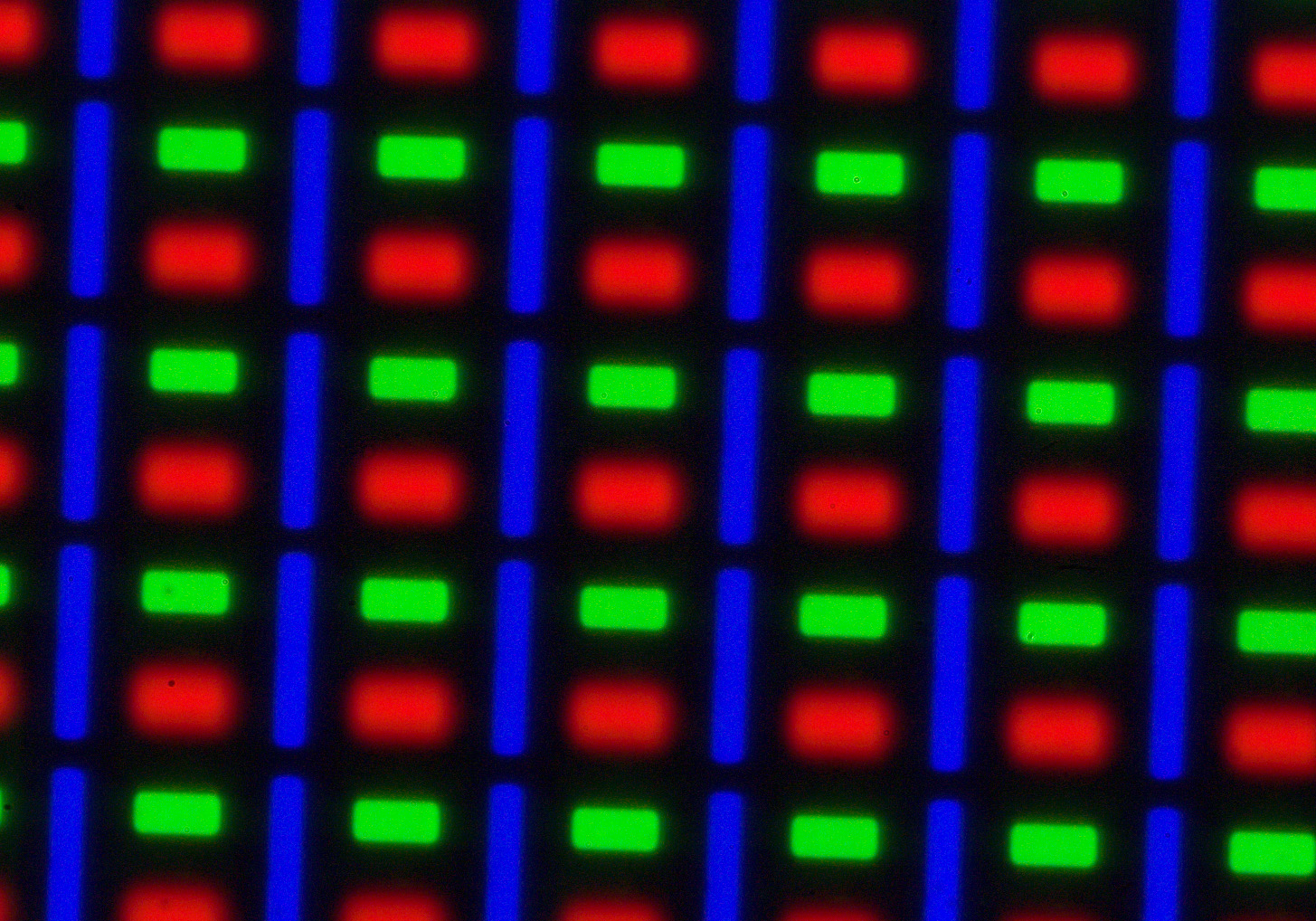 A photograph of the AMOLED S-Stripe subpixel arrangement on the Samsung Galaxy Note 2